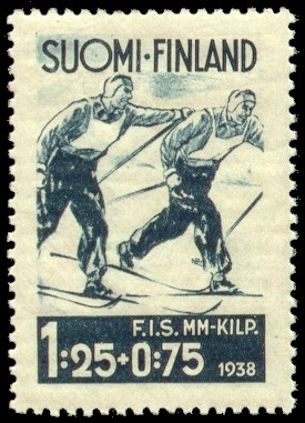 Cross country skiing championship in Lahti 1938